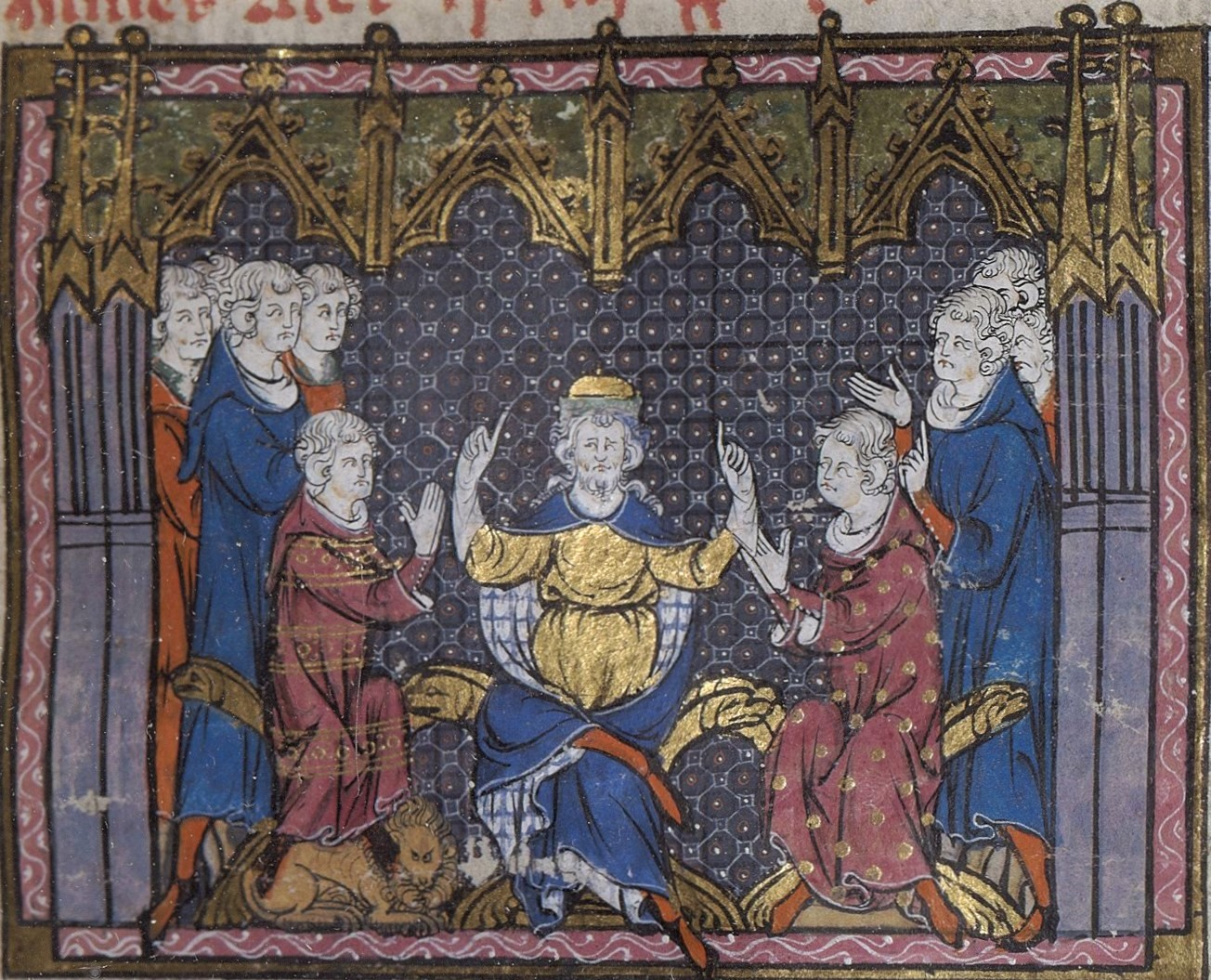 Charles Martel divides the realm between Pepin and Carloman. Miniature (illuminated manuscript) from Grandes Chroniques de France. Bibliothèque Nationale, Ms. fr. 2615, fol. 72.